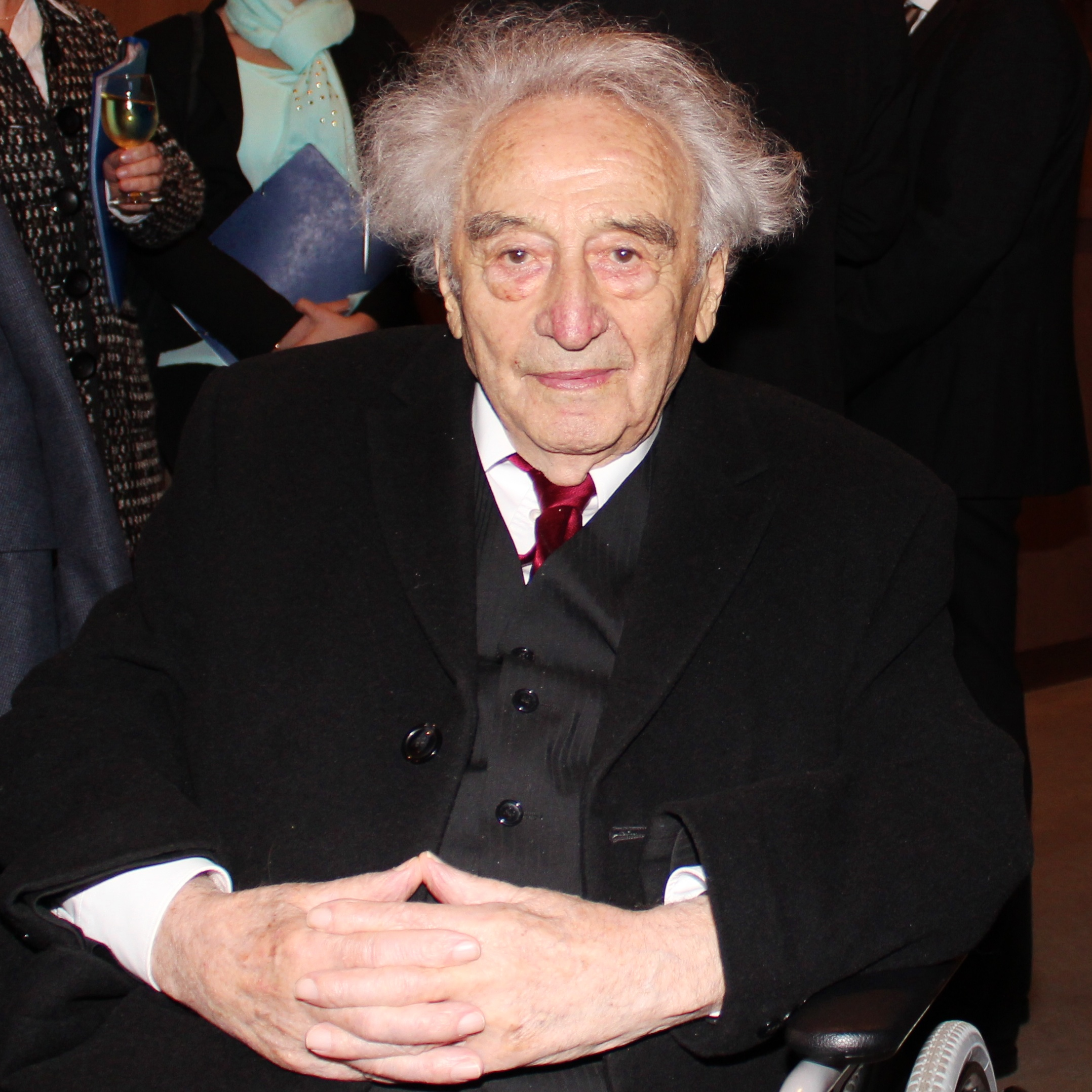 Max Mannheimer, Jewish survivor of the Holocaust